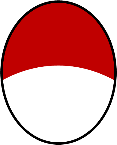 Basic coat of arms of the city of Gozzano, Italy.